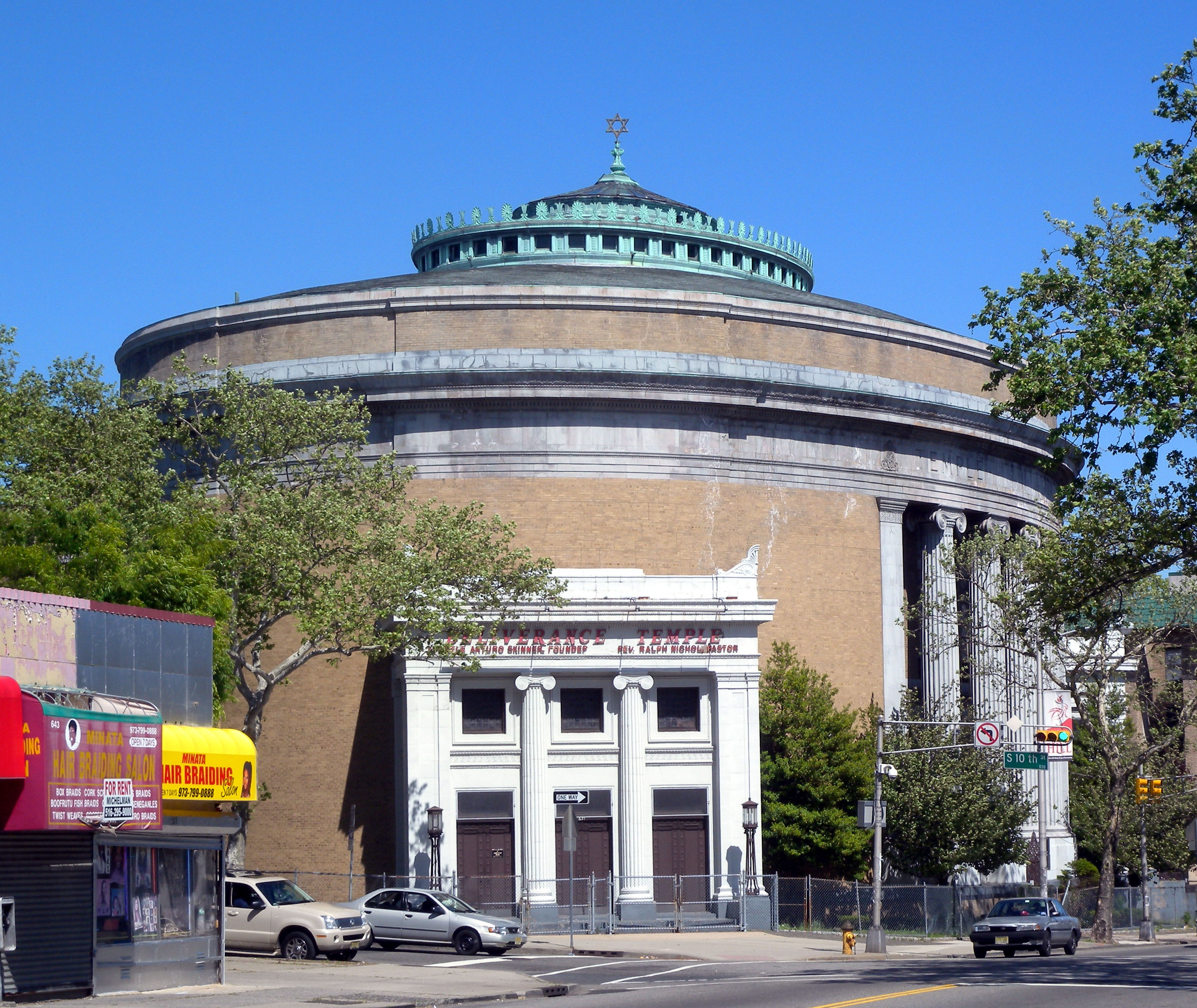 Looking east along Clinton Avenue at Bnai Abraham, now Deliverance Evangelical Church, on a sunny midday.